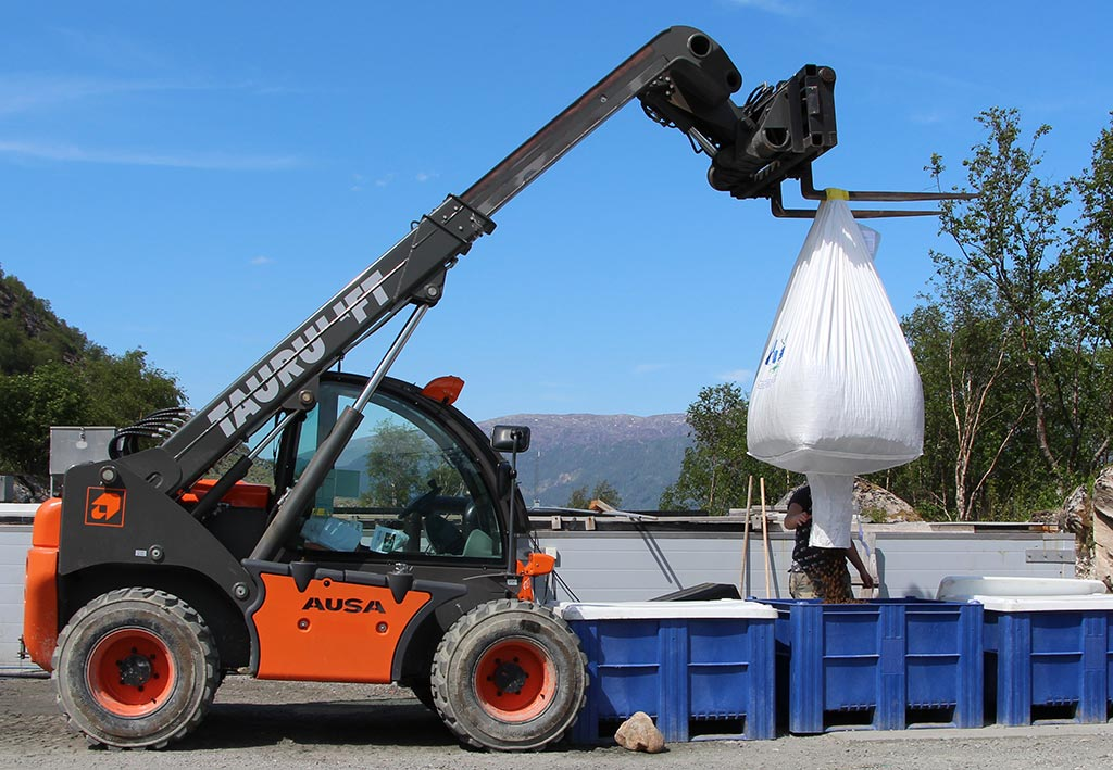 Ausa teleskoptruck (Taurulift 204 H) i bruk ved fiskeoppdrett til løfting av forsekker